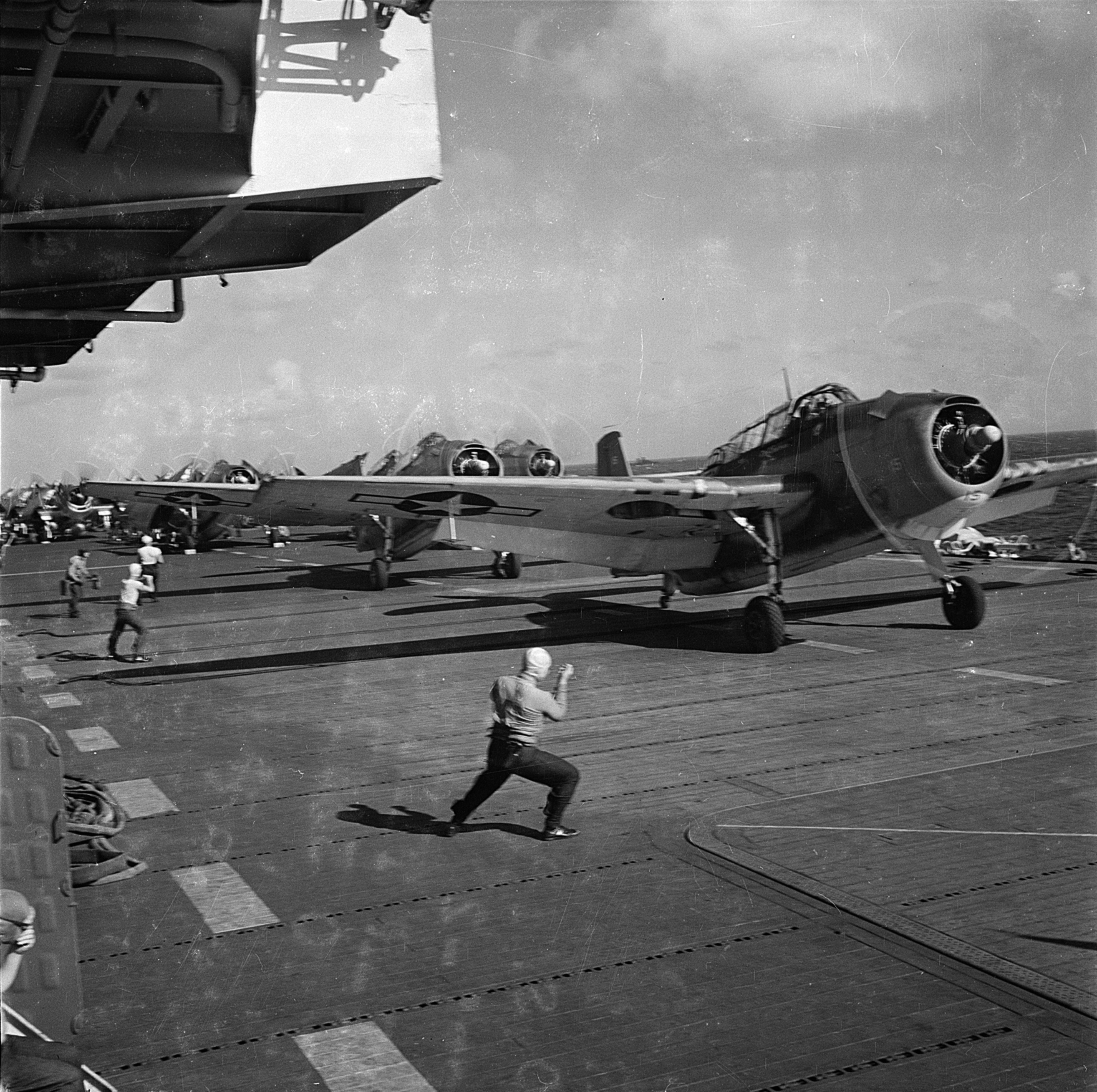 U.S. Navy Grumman TBF Avengers from Torpedo Squadron 28 (VT-28) aboard USS Monterey (CVL-26) preparing for take off for a bombing mission over Tinian Island, the nearest Japanese held island to Saipan in the Marianas in June 1944.